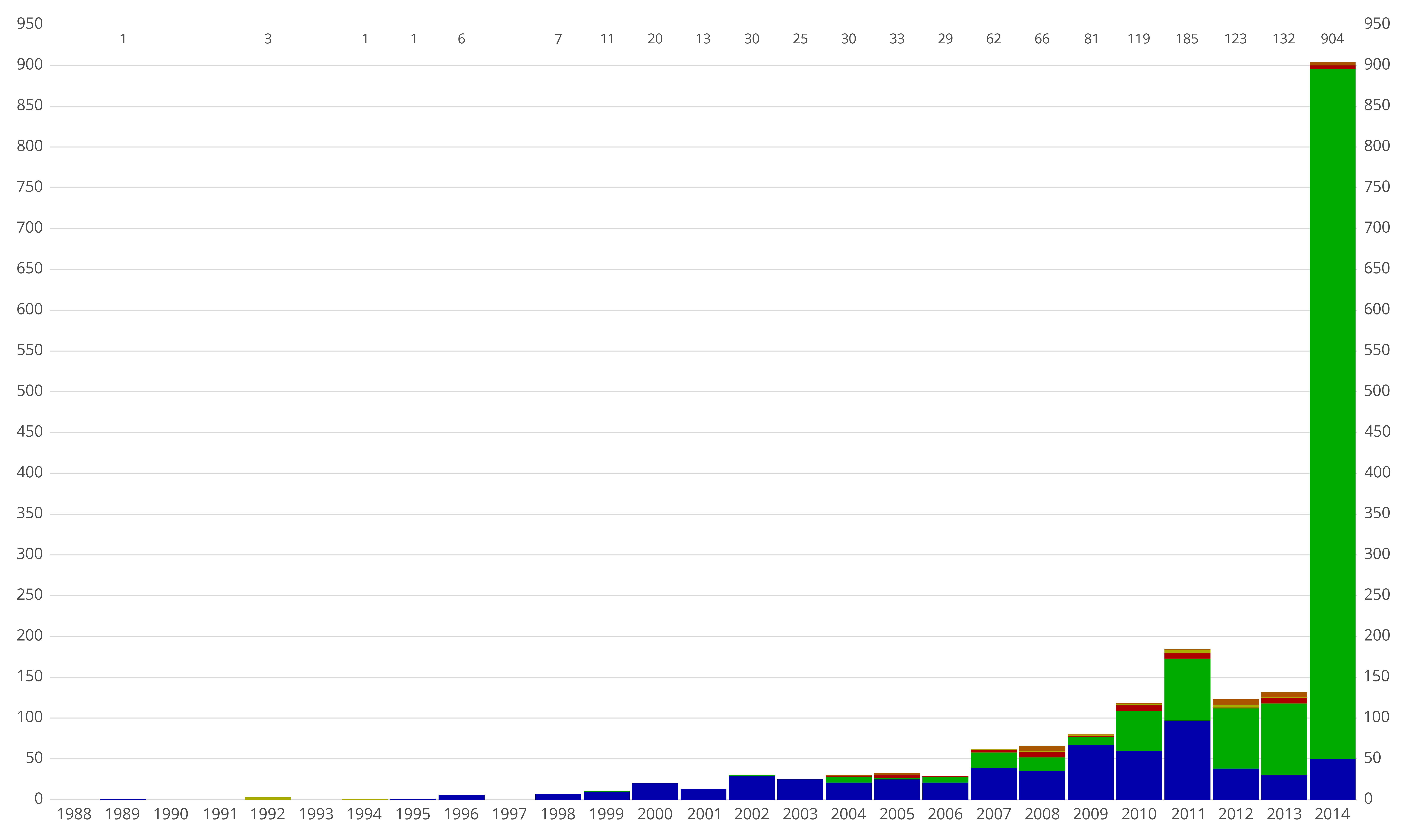 Bar chart of exoplanet discoveries by year, through 2015-01-01, indicating the discovery method using distinct colors: radial velocity (dark blue) transit (dark green) timing (dark yellow) direct imaging (dark red) microlensing (dark orange) Exoplanet data is from the Open Exoplanet Catalogue,[1] version 298ee46 ↑ Open Exoplanet Catalogue (2015-02-04). Retrieved on 2015-04-07.